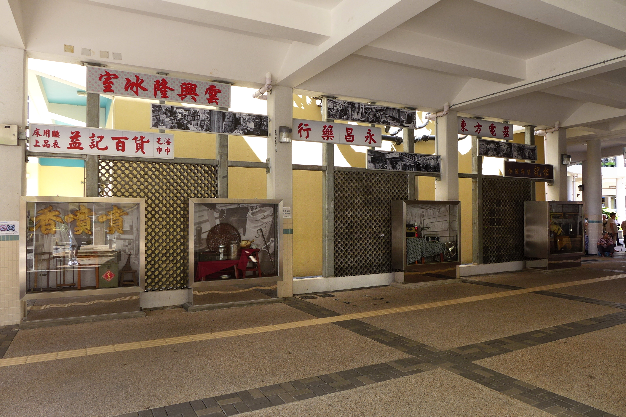 Lower Ngau Tau Kok Estate Historical Gallery